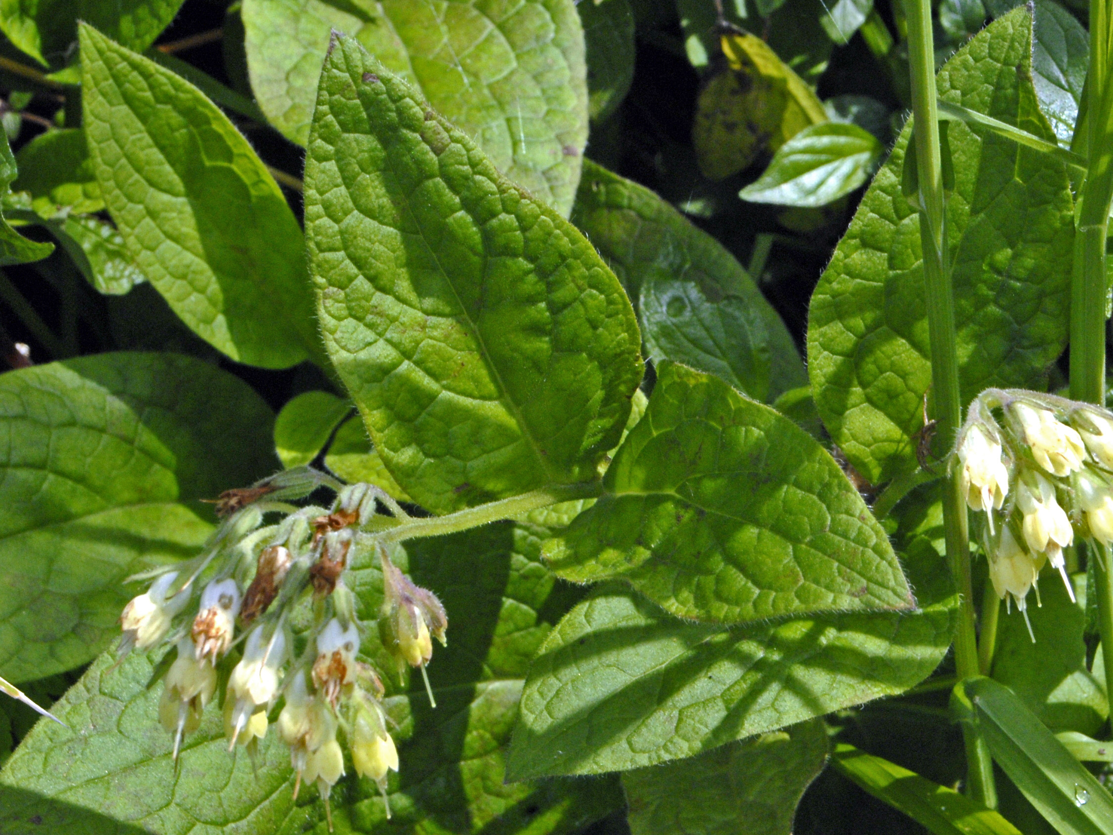 Symphytum bulbosum, Genova, Italy